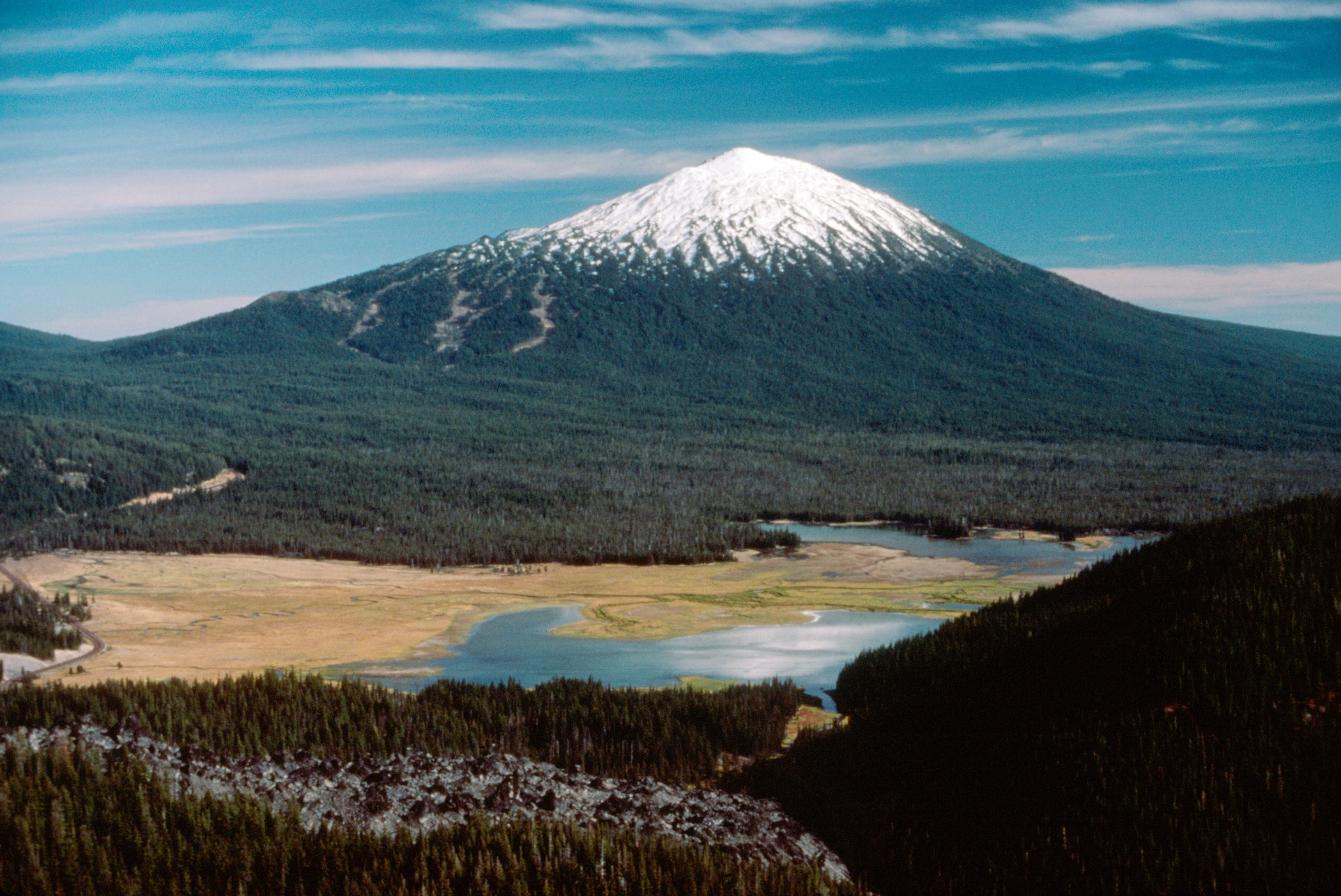 Mount Bachelor, Oregon